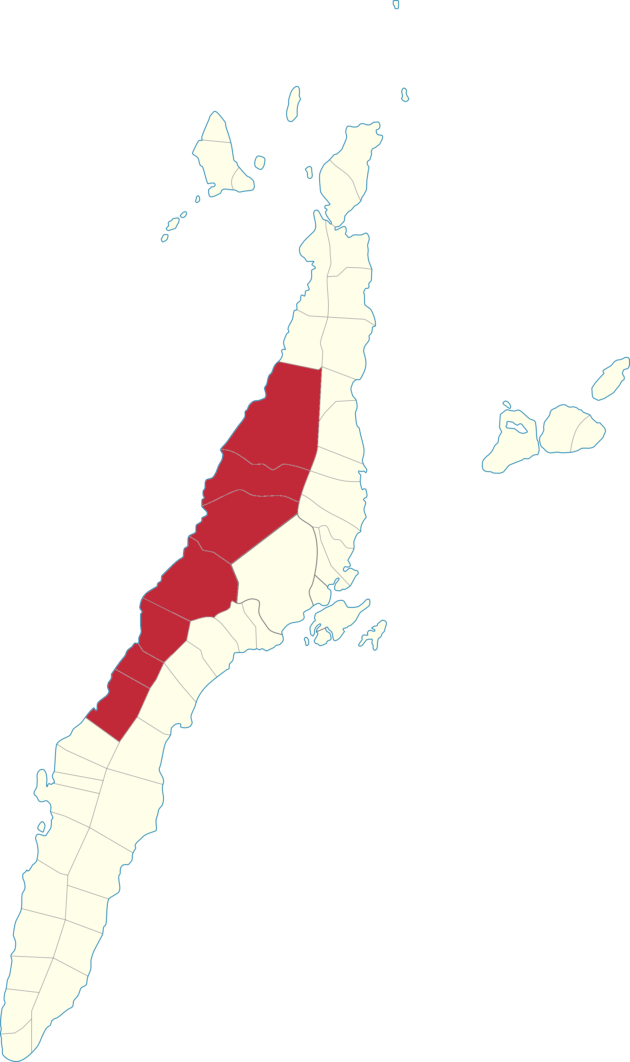 Location of 3rd Legislative district of Cebu, Philippines